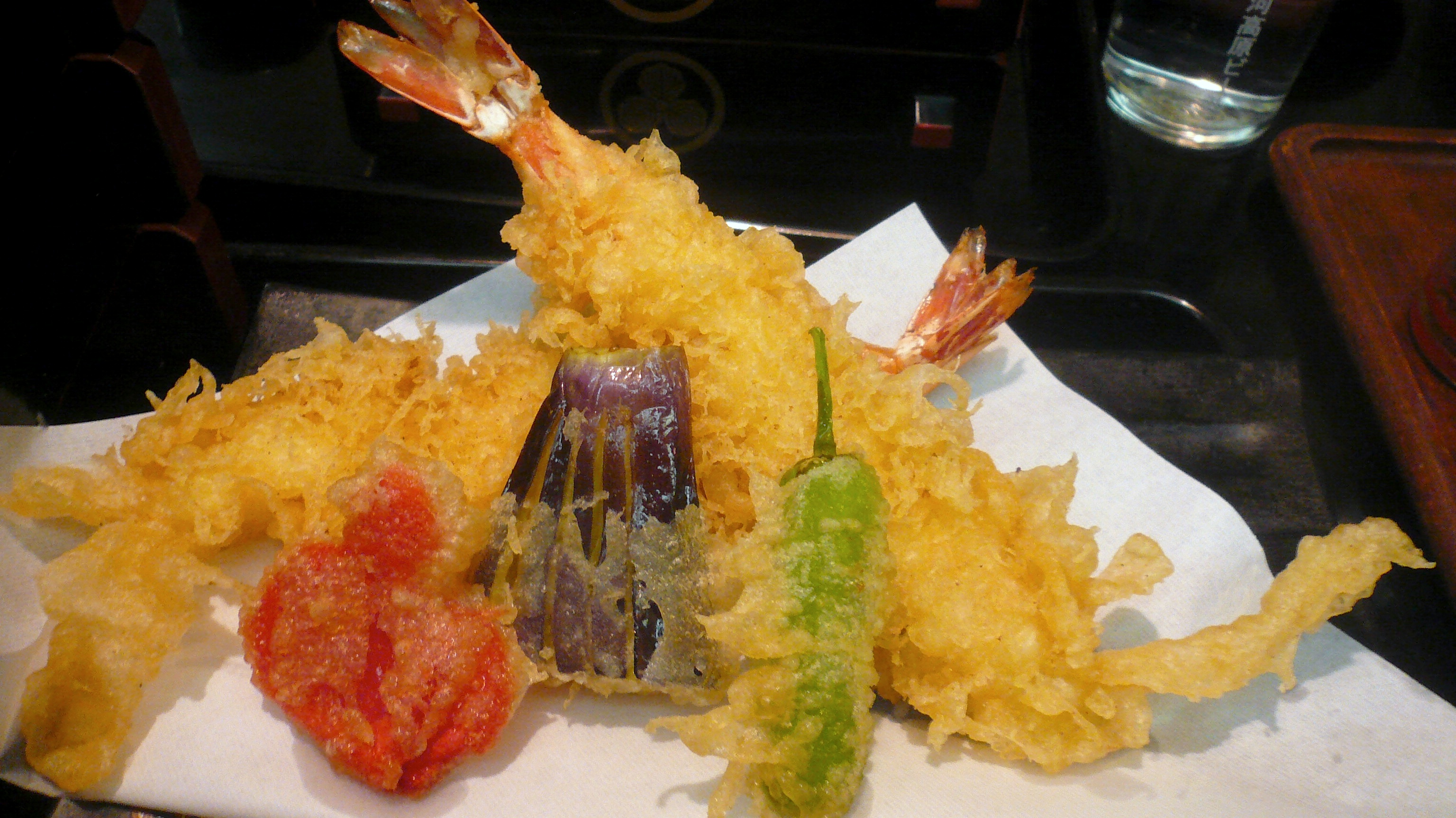 Thought someone might need a free use image of tempura. Of course I'd like credit if you use this, but there's no obligation that you do that! This is published under the CC0 license meaning you are free to use this in any way you want, private or commercial. Have at it!